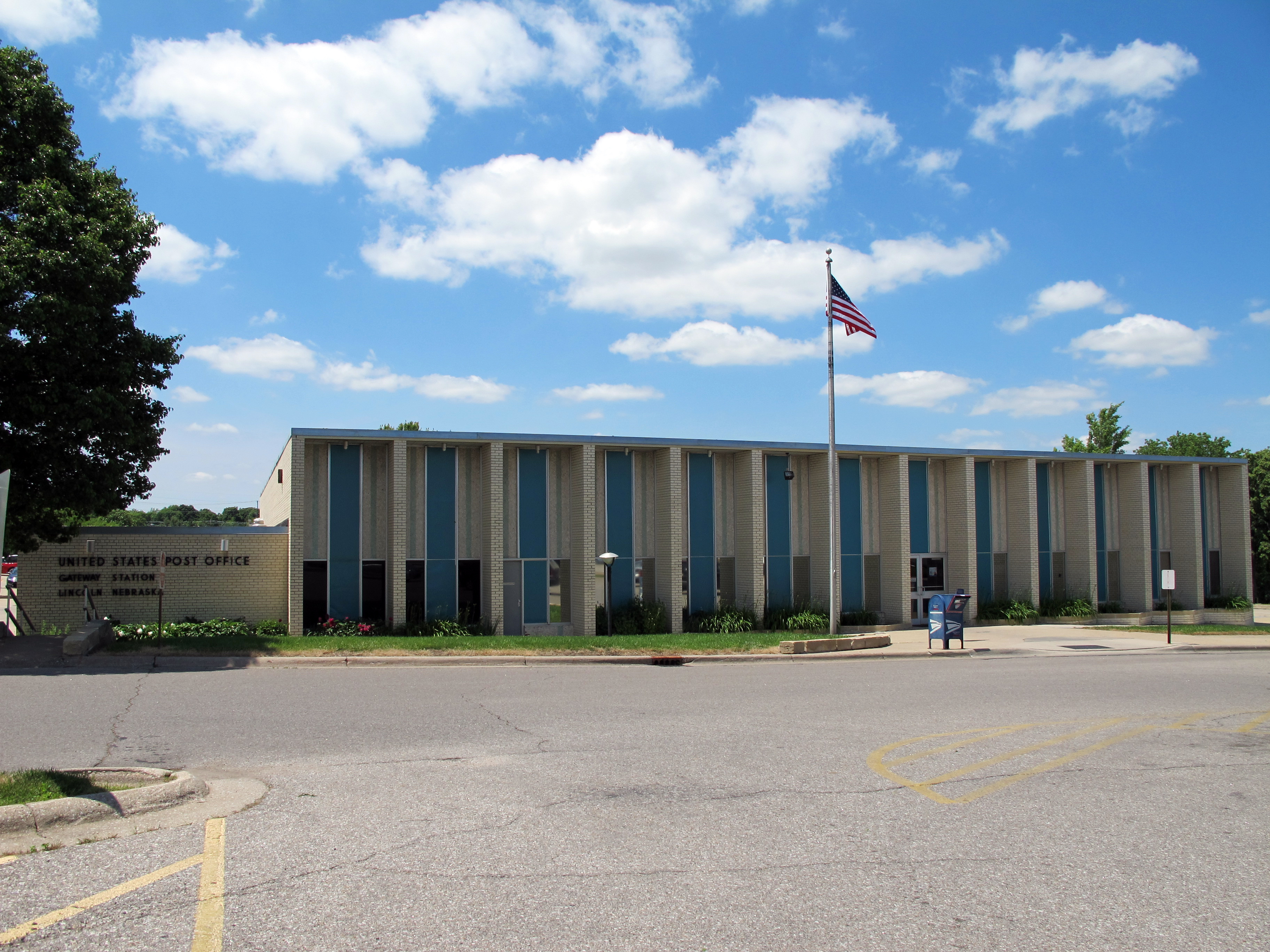 Photo of the Gateway Post Office (68505), 5945 "R" Street in Lincoln, Nebraska. Photo is facing west-northwest towards the front of the post office; Gateway Mall is directly opposite from where this photo is facing.